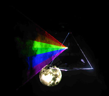 Solid state laser system designed by Marc Brickman.